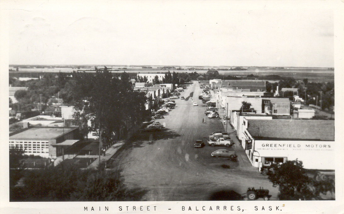 Aerial view of Main Street, Balcarres, Saskatchewan